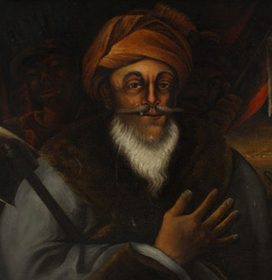 Cropped version